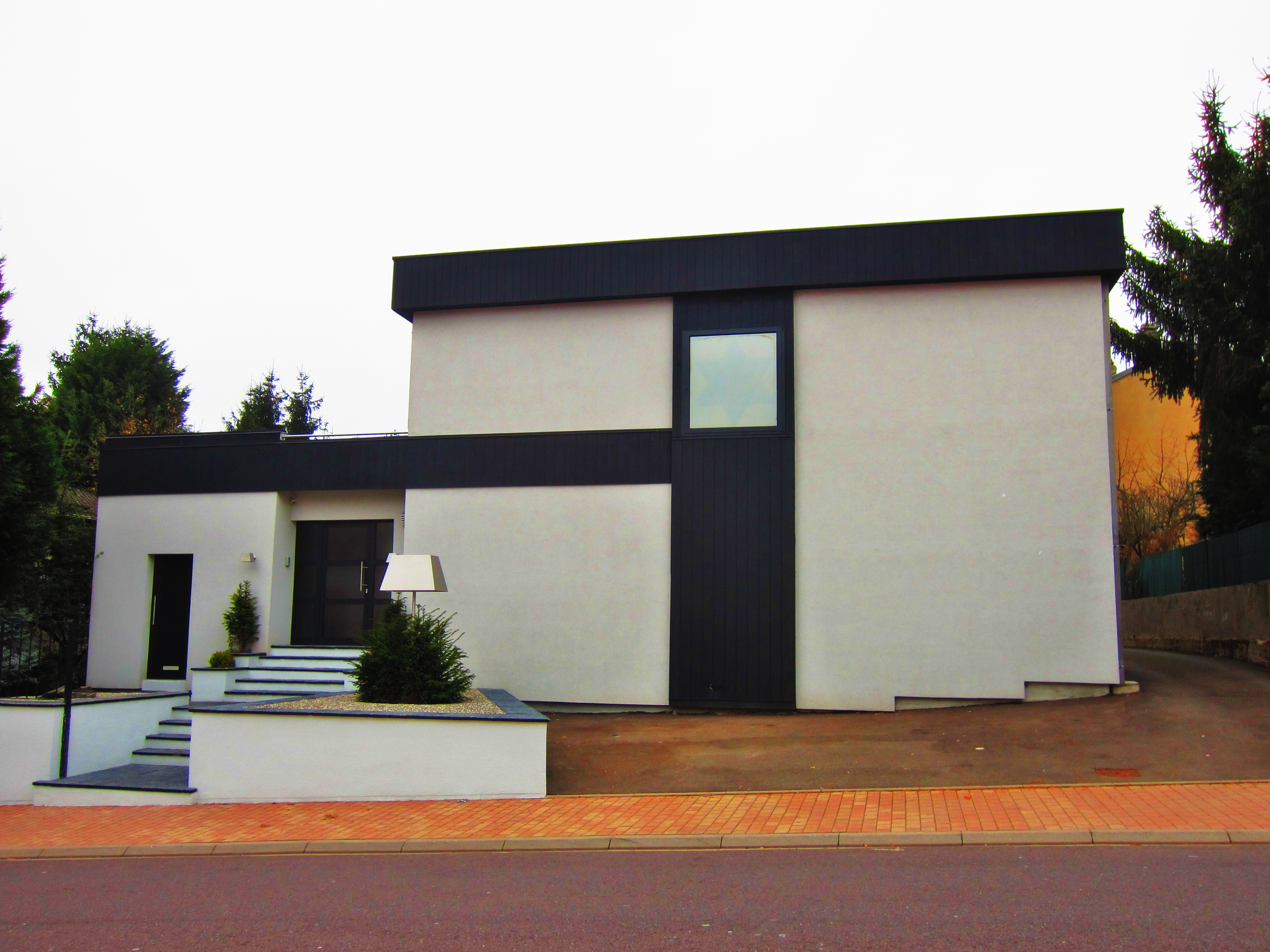 Freyming Merlebach synagogue